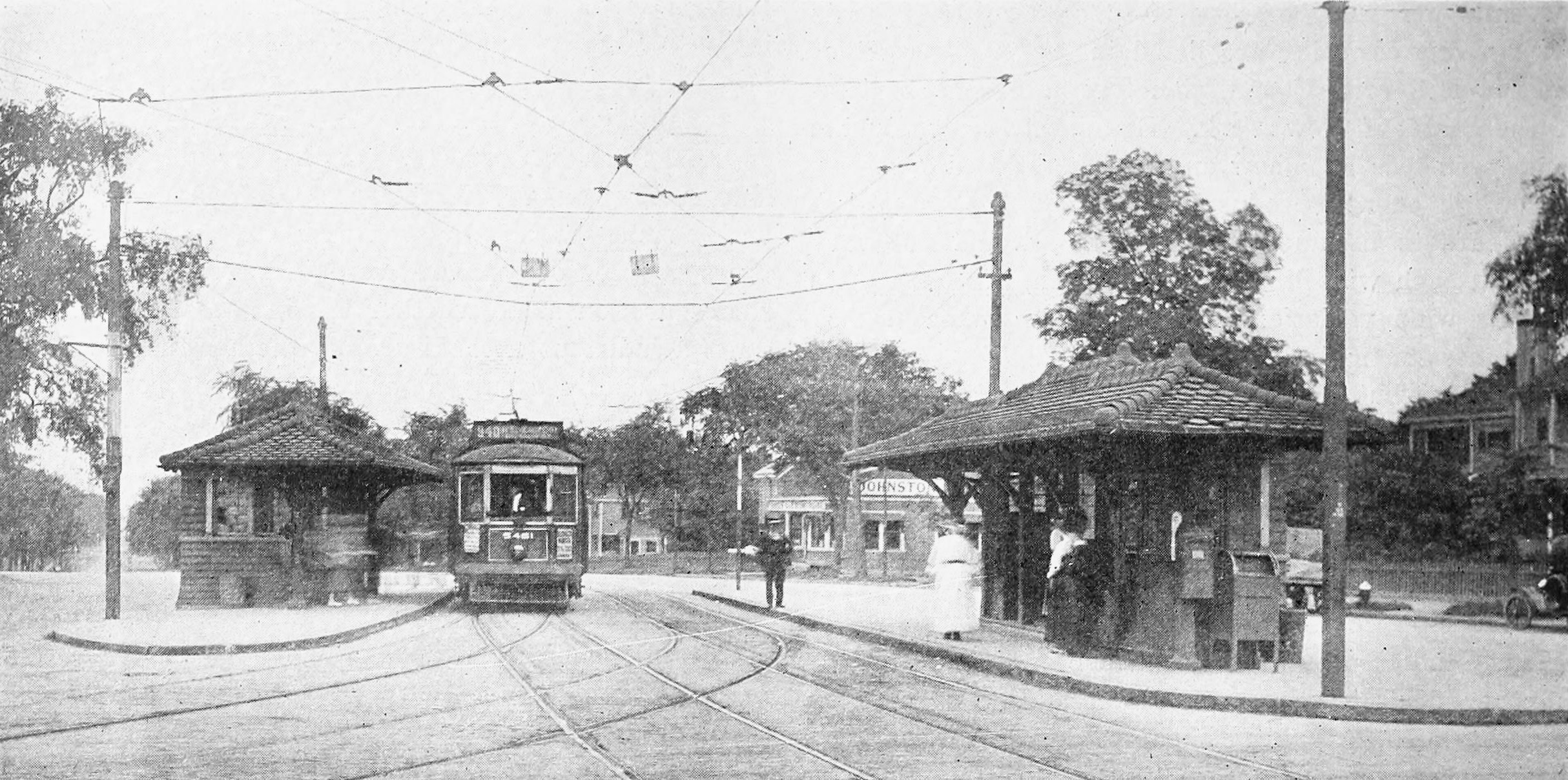 Coolidge Corner station facing east in 1916. The curved tracks lead to Harvard Street. The inbound shelter at right was moved across the intersection within a decade.